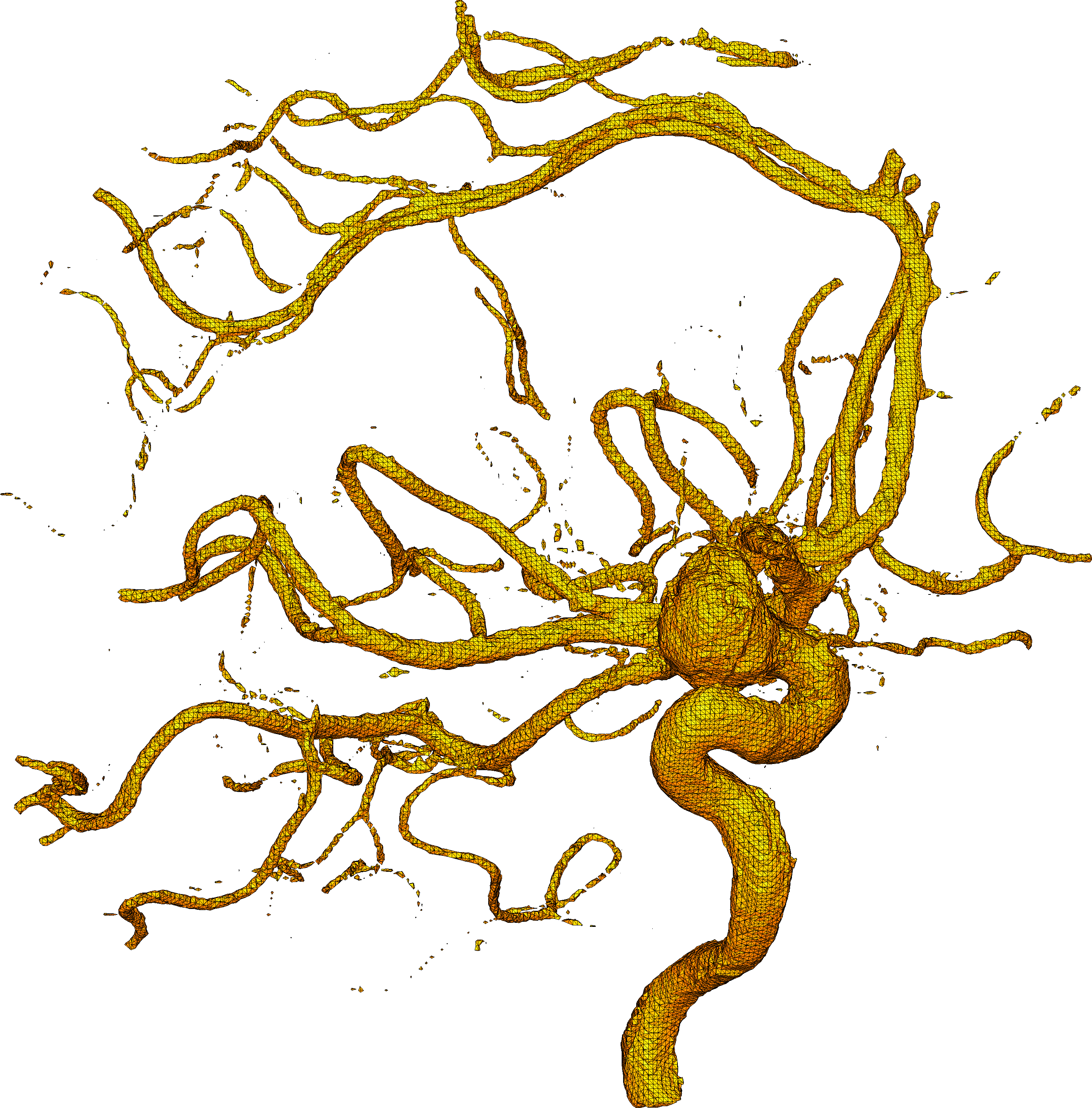 This files shows an cerebral aneurysm extracted using Marching Cubes, an isosurface extraction technique. The dataset used as input can be found in